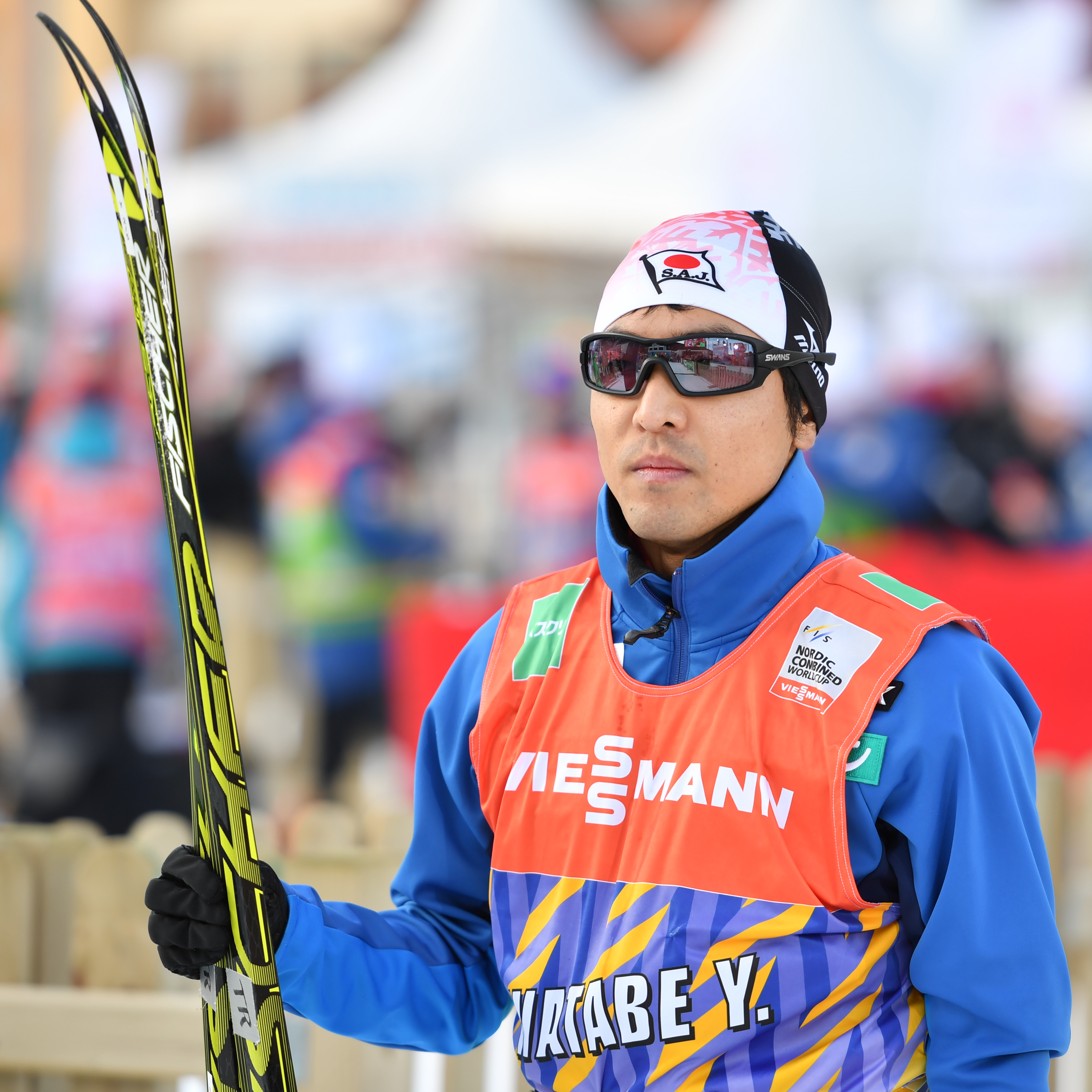 FIS World Cup Nordic Combined, Ramsau/Austria, 2016-12-16 to 2016-12-18.